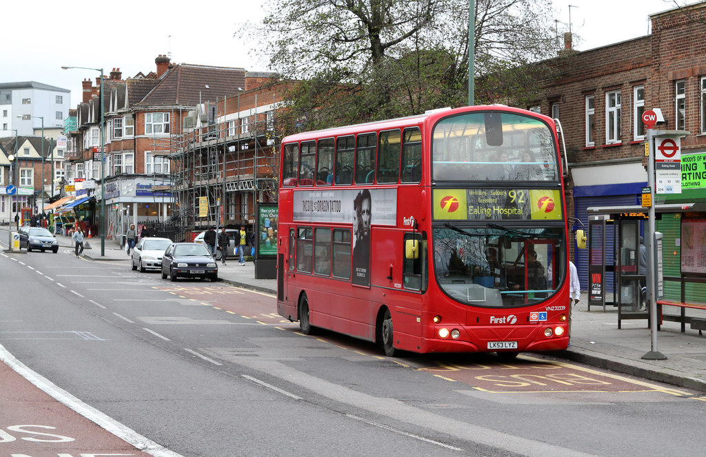 92 on Wembley High Road, Data from Geograph: Description: A First operated 92 bus collects Boxing Day passengers on Wembley High Road. The vehicle is a Wright Eclipse Gemini bodied Volvo B7TL. It has been repainted in all over red - something that the majority of London's operators... more ICBM: 51.552127036357, -0.30148861709051 Location: (about 1 km from) near to Wembley, Brent, Great Britain.